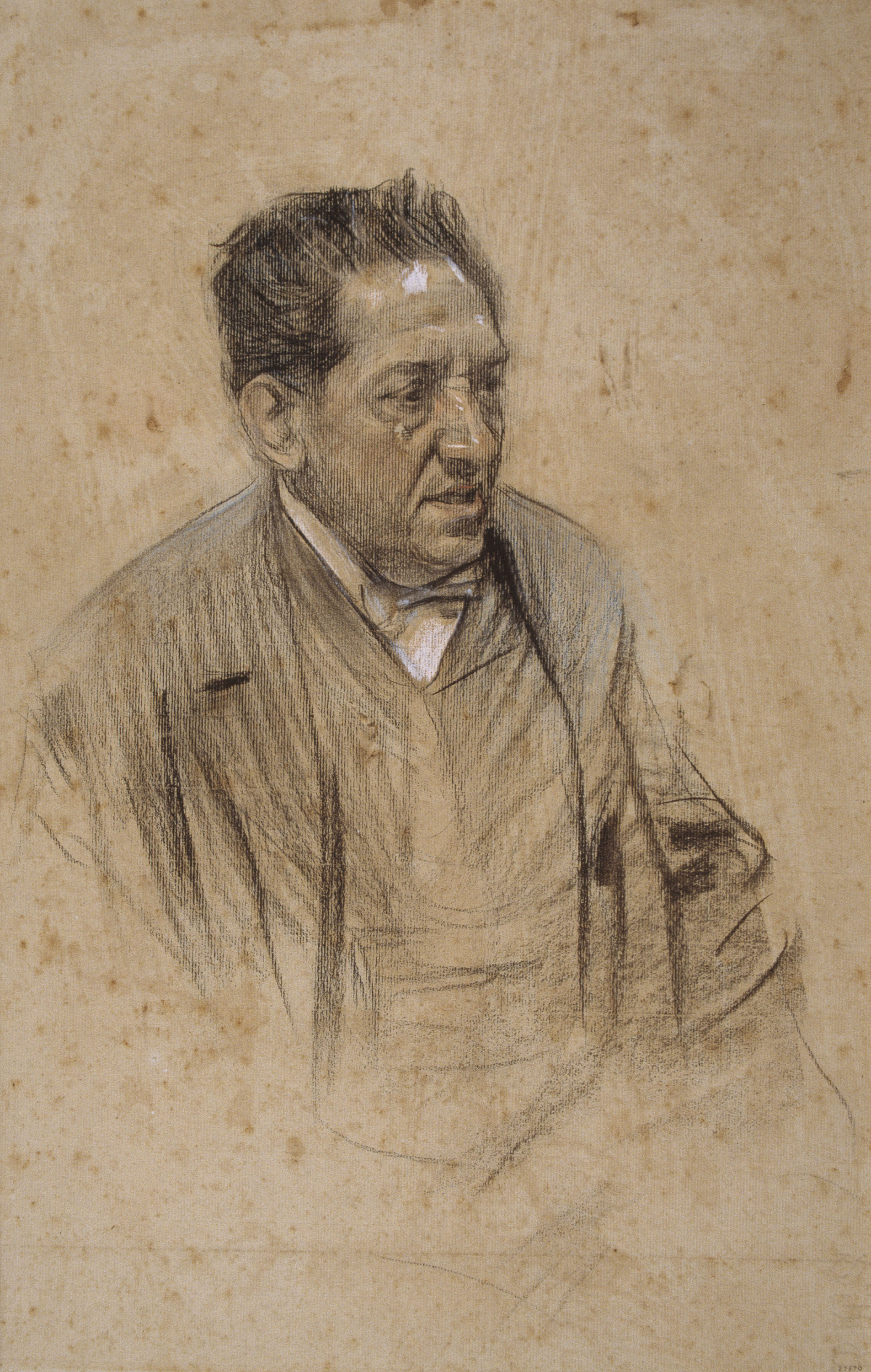 Portrait by Ramon Casas conserved at MNAC in Barcelona.